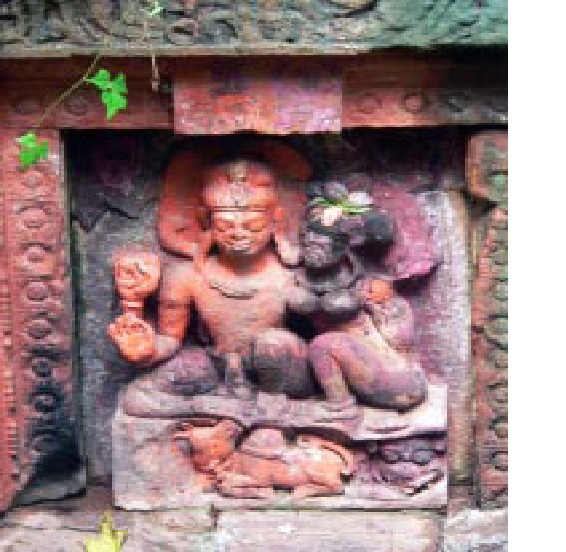 Narayani Temple is dedicated to ten armed goddess Narayani or Durga and is located in Narayani village situated near Khalikote, Orissa, India. The temple is popular for Durga Puja and a fair held in the Indian month of Chaitra. The temple was renovated by the zamindars of Khalikote in the early 18th century.